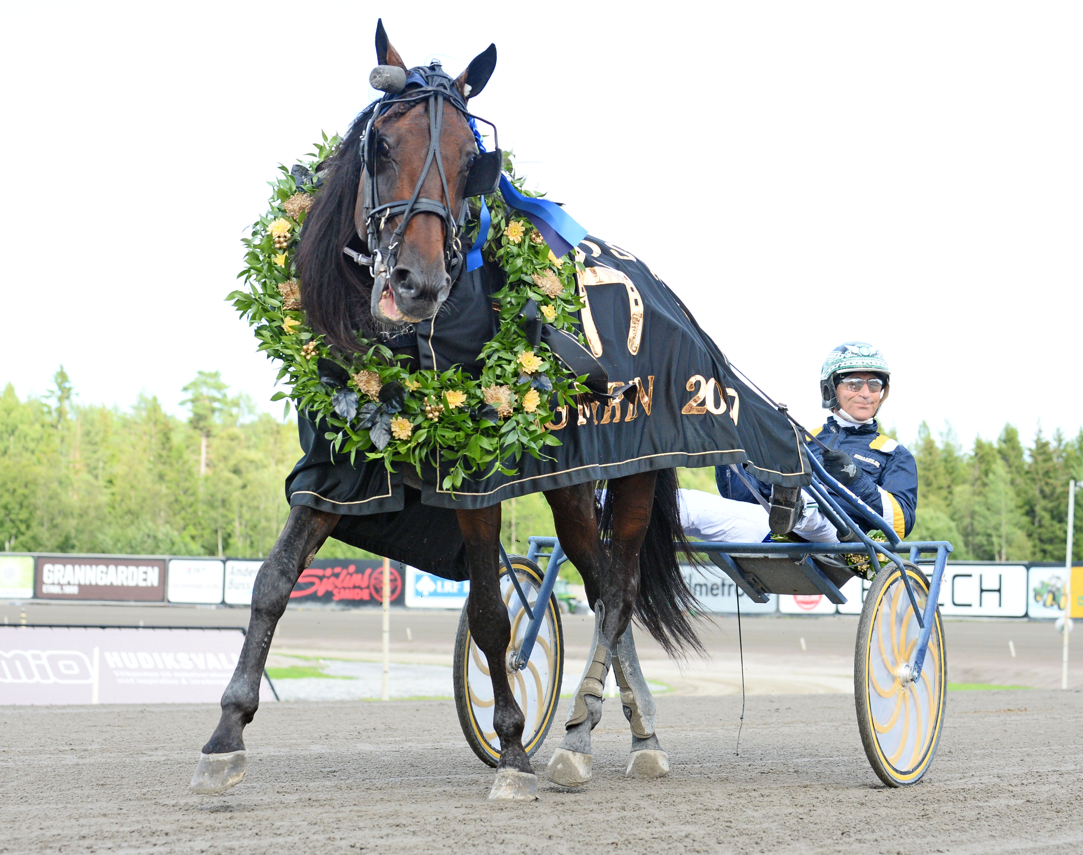 Volstead & Johnny Takter 2017-07-29